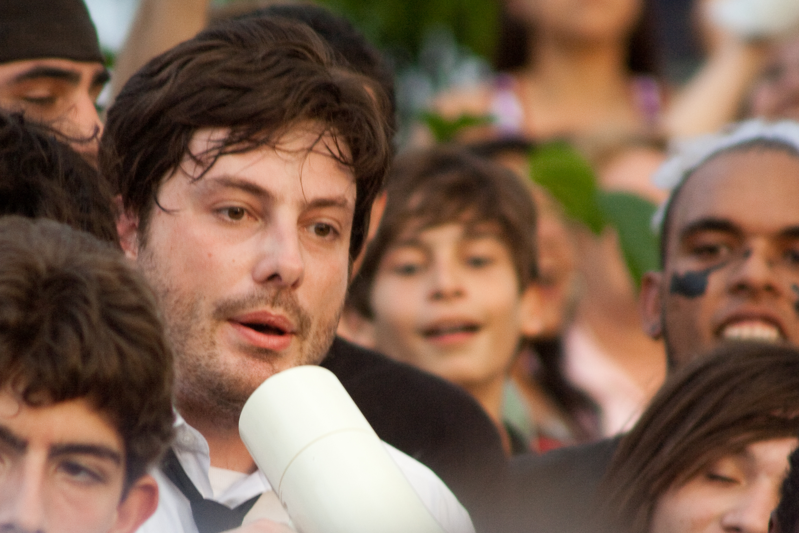 Pillow Fight SP.